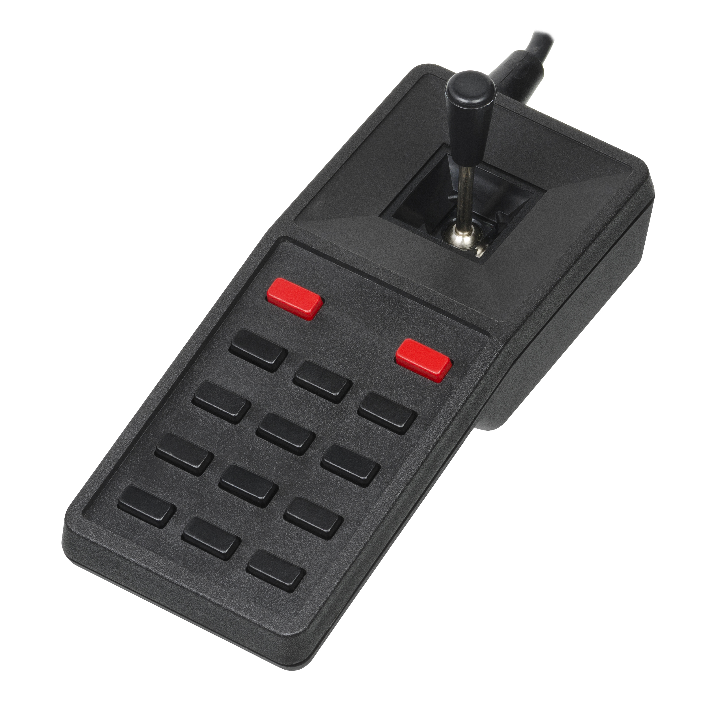 The controller for the Interton Electronic VC 4000, a German video game console released in Europe in 1978.